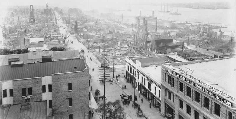 Bird's-eye view of the destruction left in the wake of the Great Fire of 1901